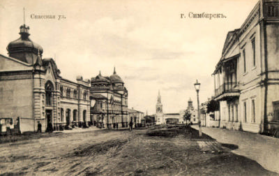 Old Ulyanovsk